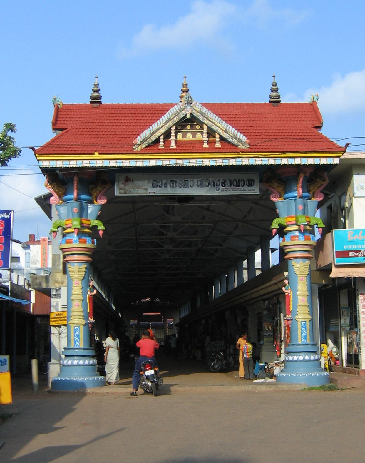 Entrance of Ambalapuzha Sri Krishna Temple